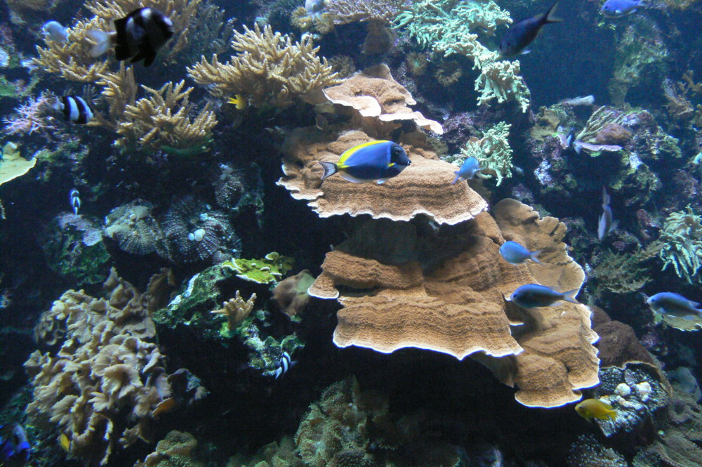 Aquarium Berlin. Germany Reef-Aquarium Photo:User:Haplochromis